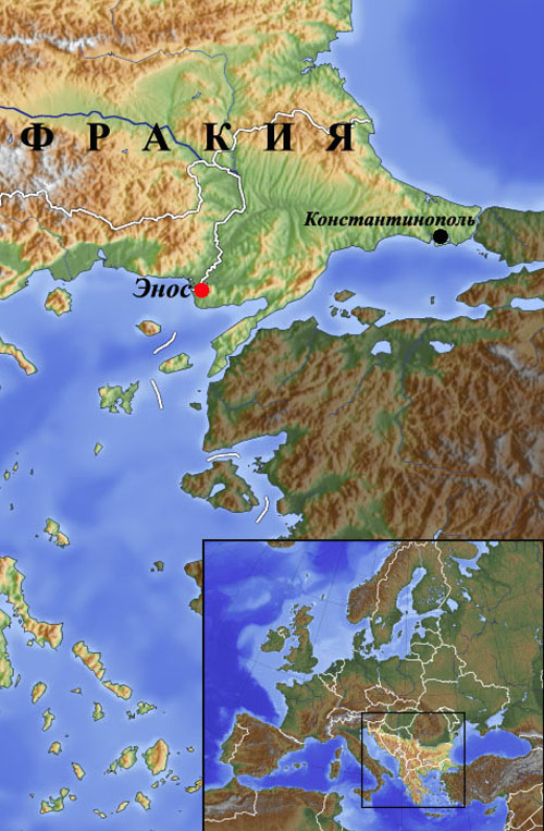 Loсation of byzantine town Aenus (Thrace) (modern Enez, Turkey)